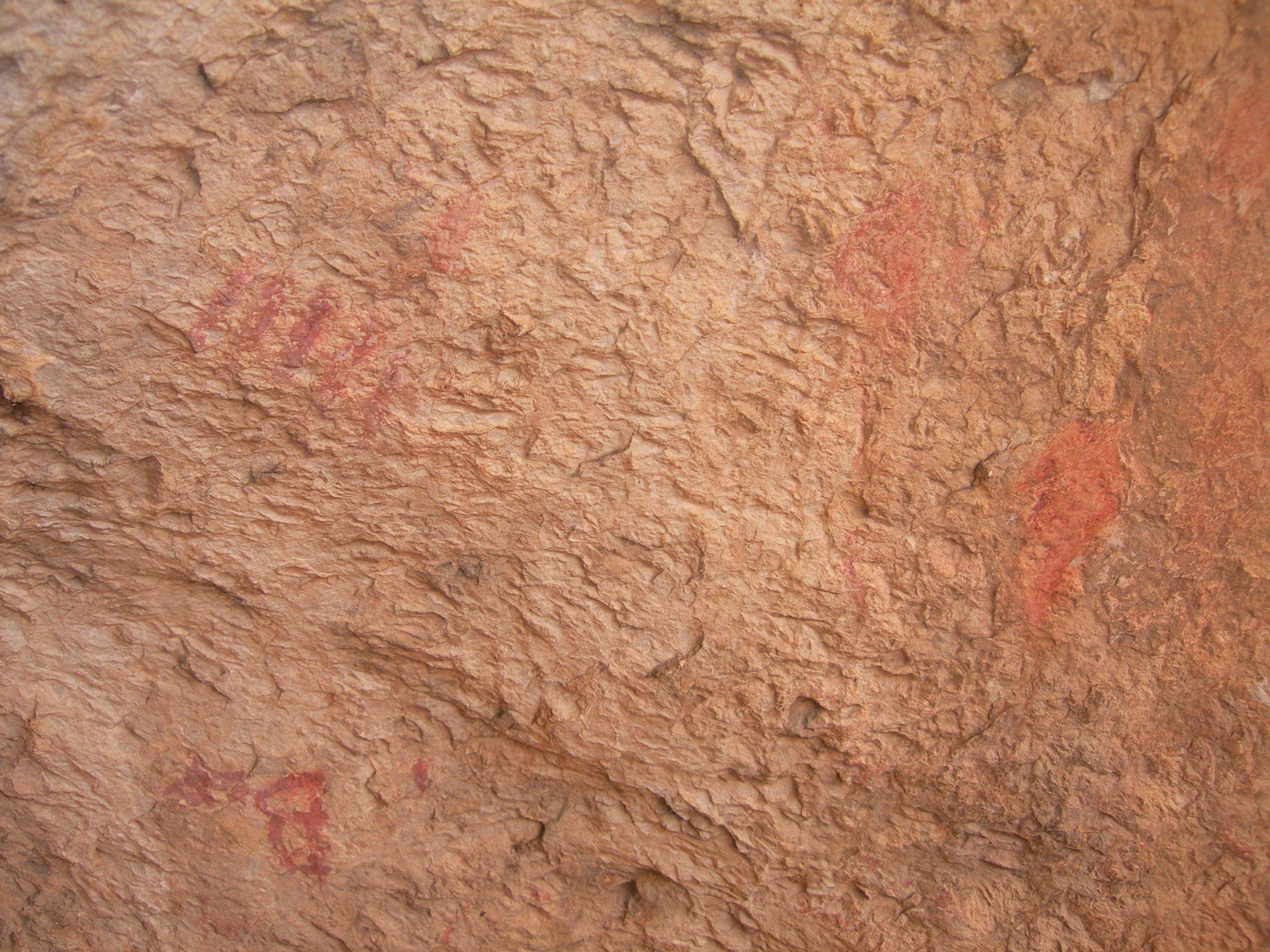 Pinturas rupestres esquematicas